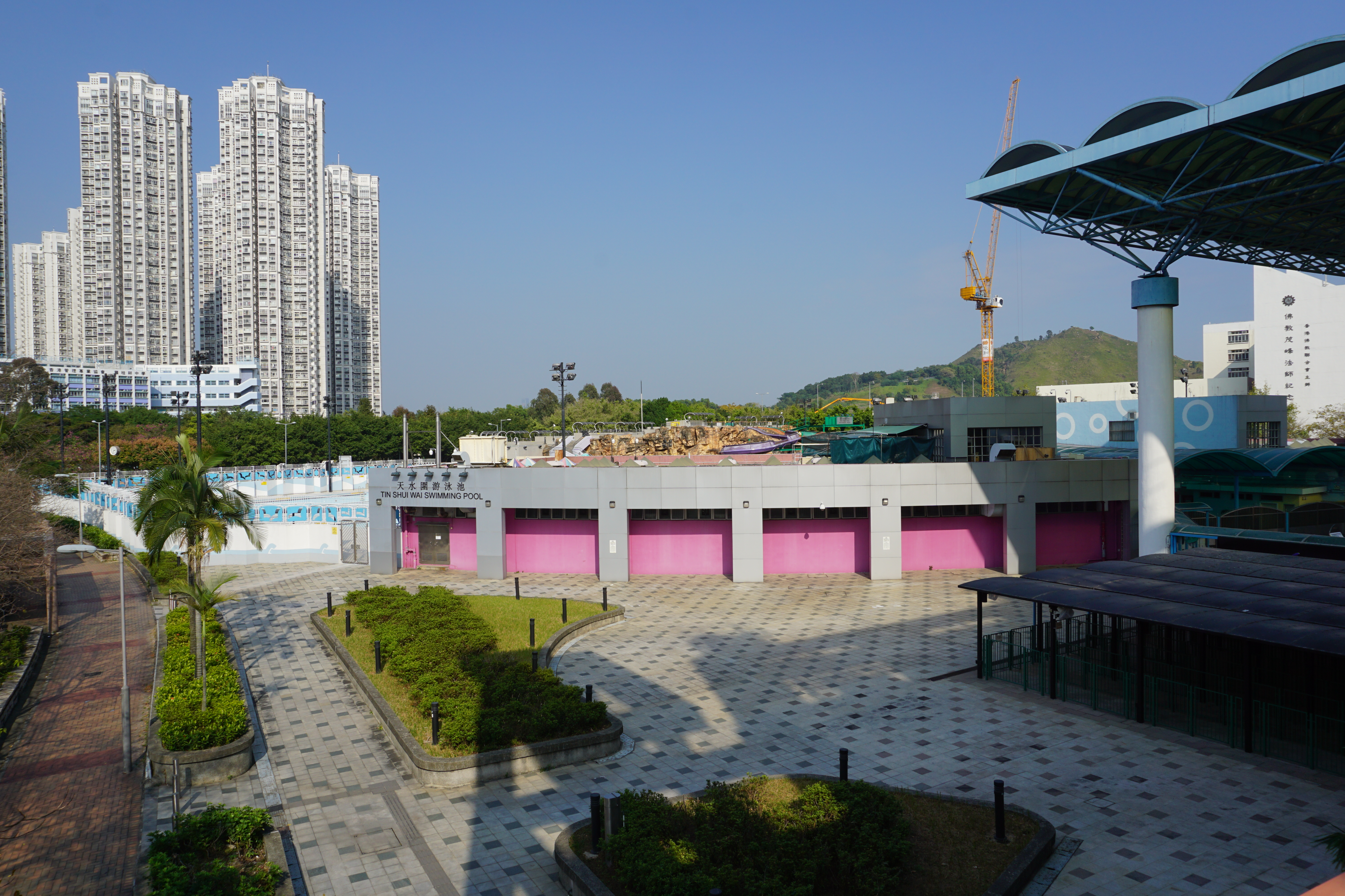 Swimming Pool in Tin Shui Wai, Hong Kong.